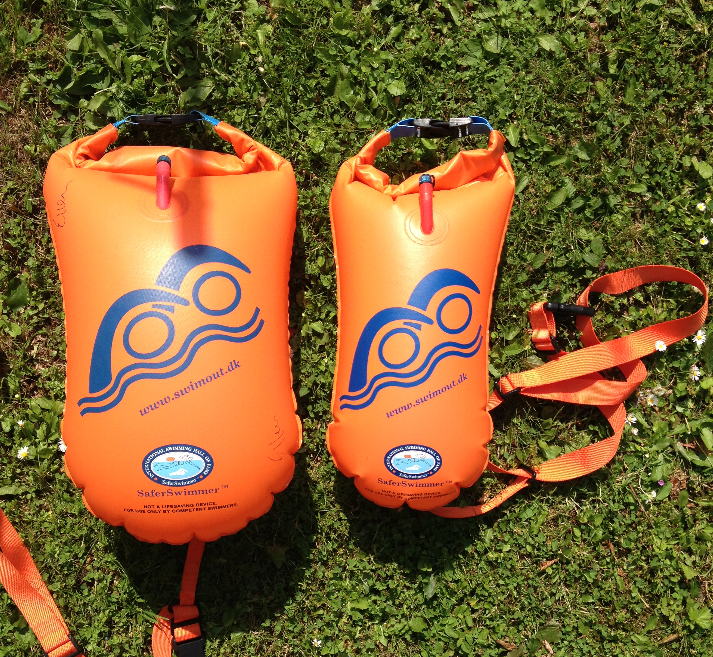 SaferSwimmer floats in two sizes: Size L and size M. Most swimmers prefer size L.